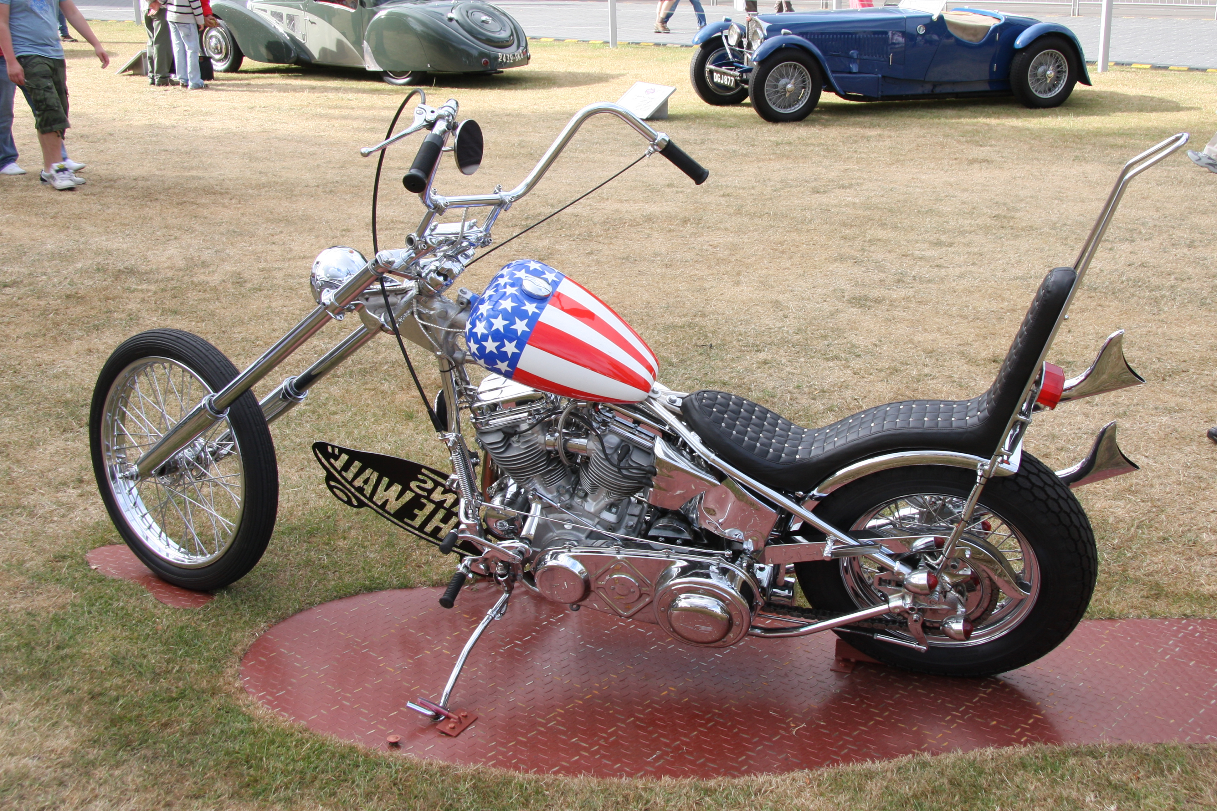 1969-type Captain America. Built in 1993 from the remains of a 1948 Panhead 1200